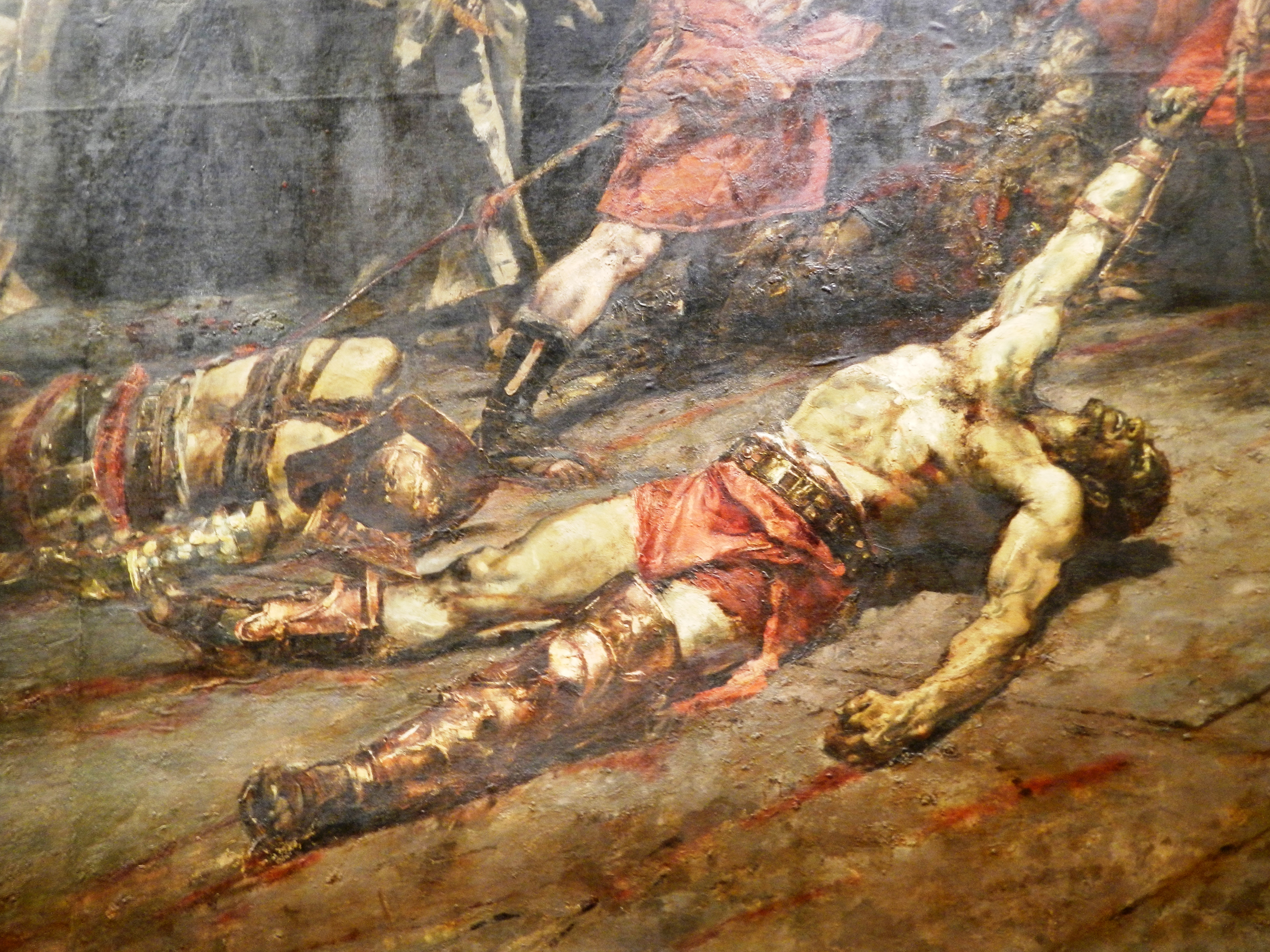 Photos of the ground floor , the 2 paintings in the National Art Gallery, the National Museum of the Philippines[1][2] is now the site of the Old Congress Building, Manila: Felix Resurrection Hidalgo, "El asasinato del Gobernador Bustamante" Fernando Manuel de Bustillo Bustamante y Rueda Félix Resurrección Hidalgo's The Assassination of Governor Bustamante is Hidalgo's interpretation of the death illustrated by a mob of Dominican friars murdering the governor and Spoliarium painting by Filipino artist Juan Luna .